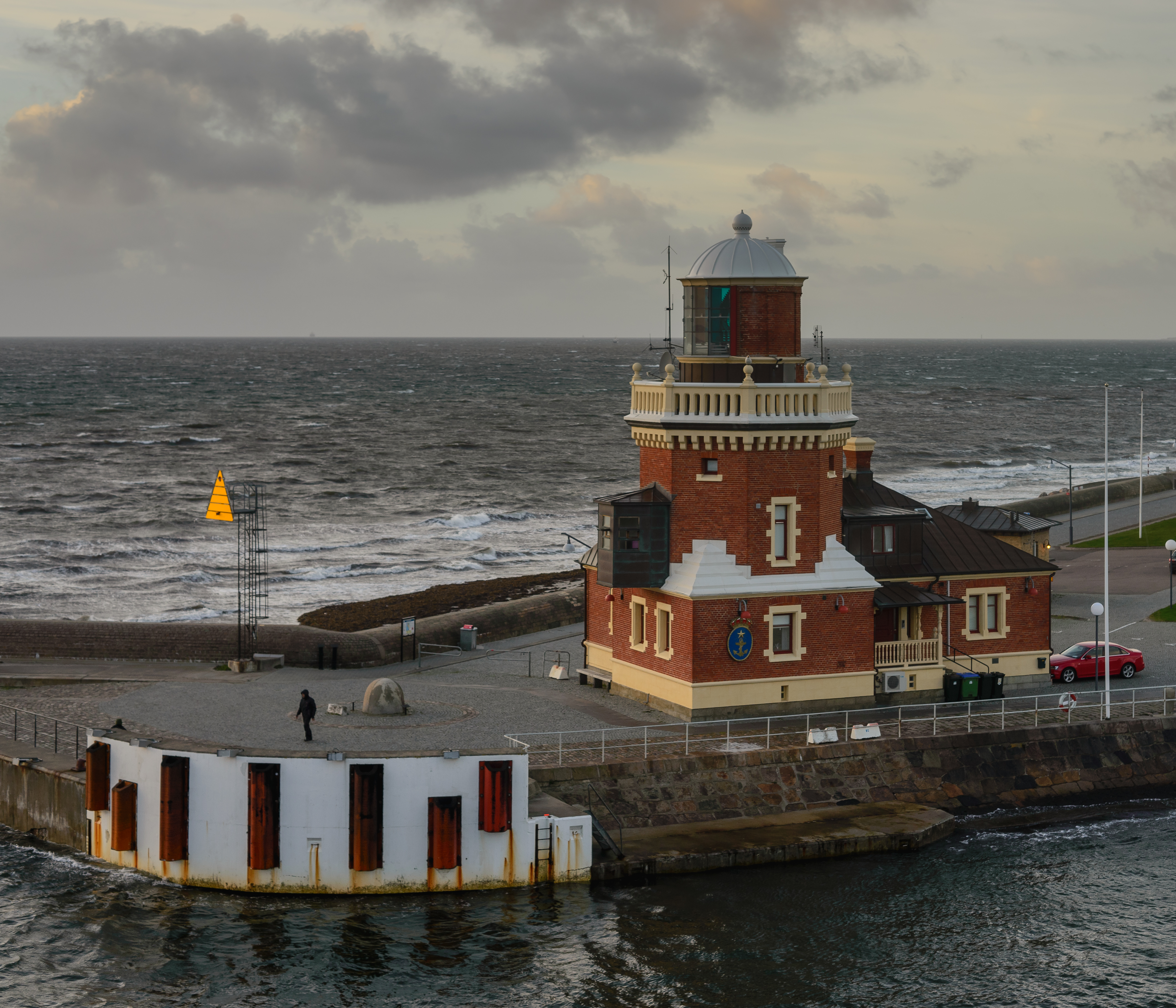 Lighthouse and pilot house in Helsingborg, Sweden.